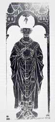 Saint Piat, unknown medium